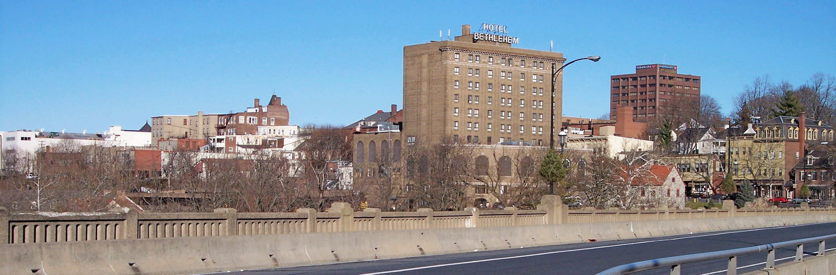 Downtown Bethlehem, Pennsylvania as viewed from Bridge Street